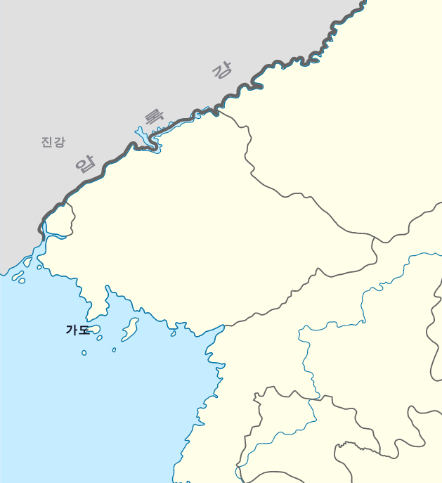 Gado(椵島), Pido(皮島)